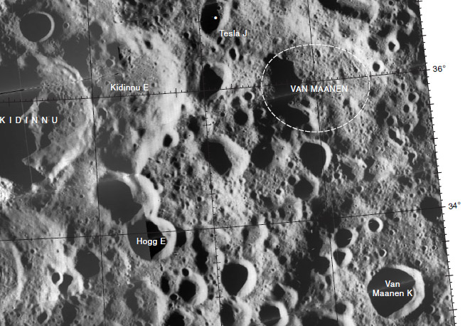 Except from the USGS Digital Atlas of the Moon.